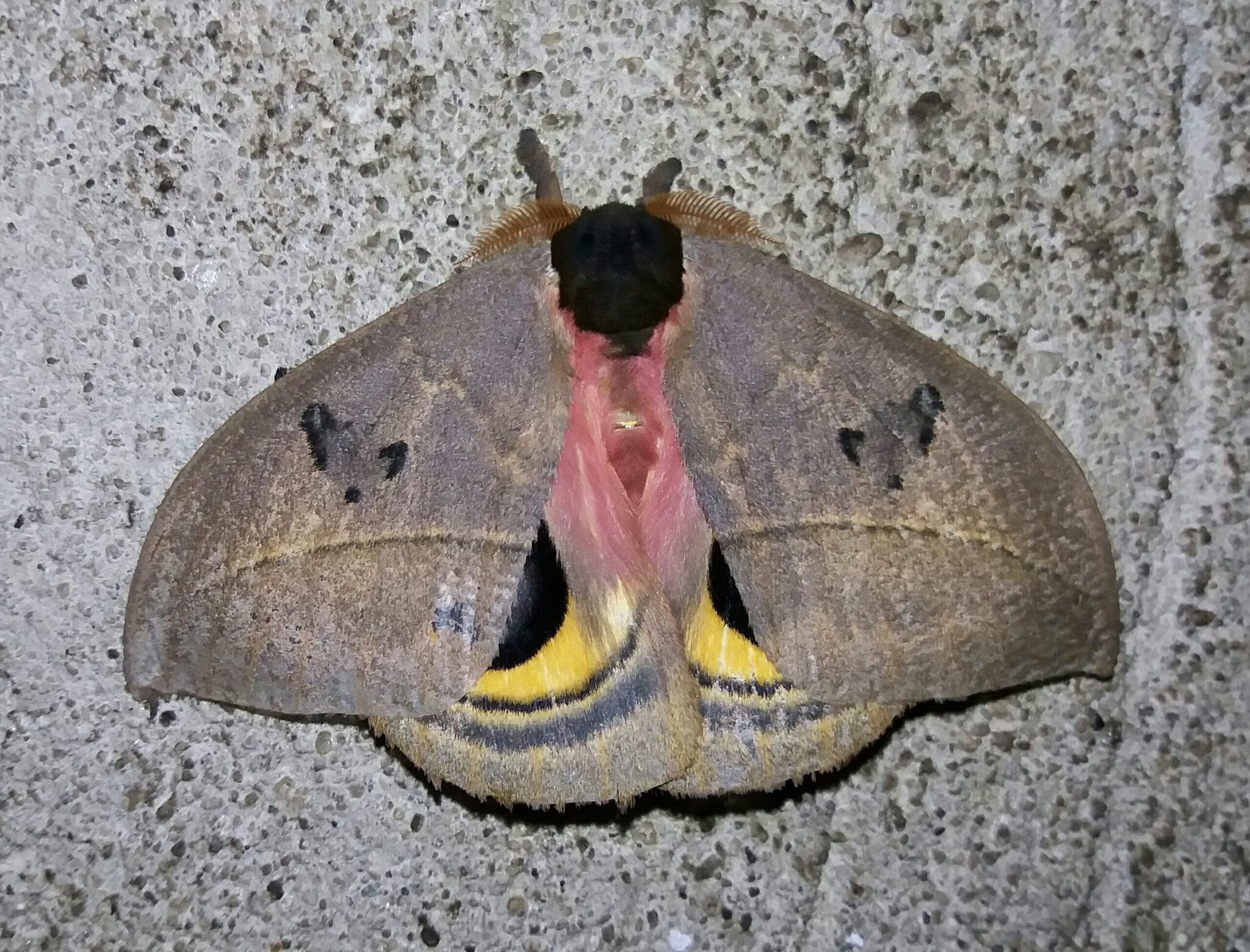 Moth Automeris